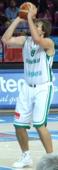 Slovenia vs. Serbia at EuroBasket 2009.